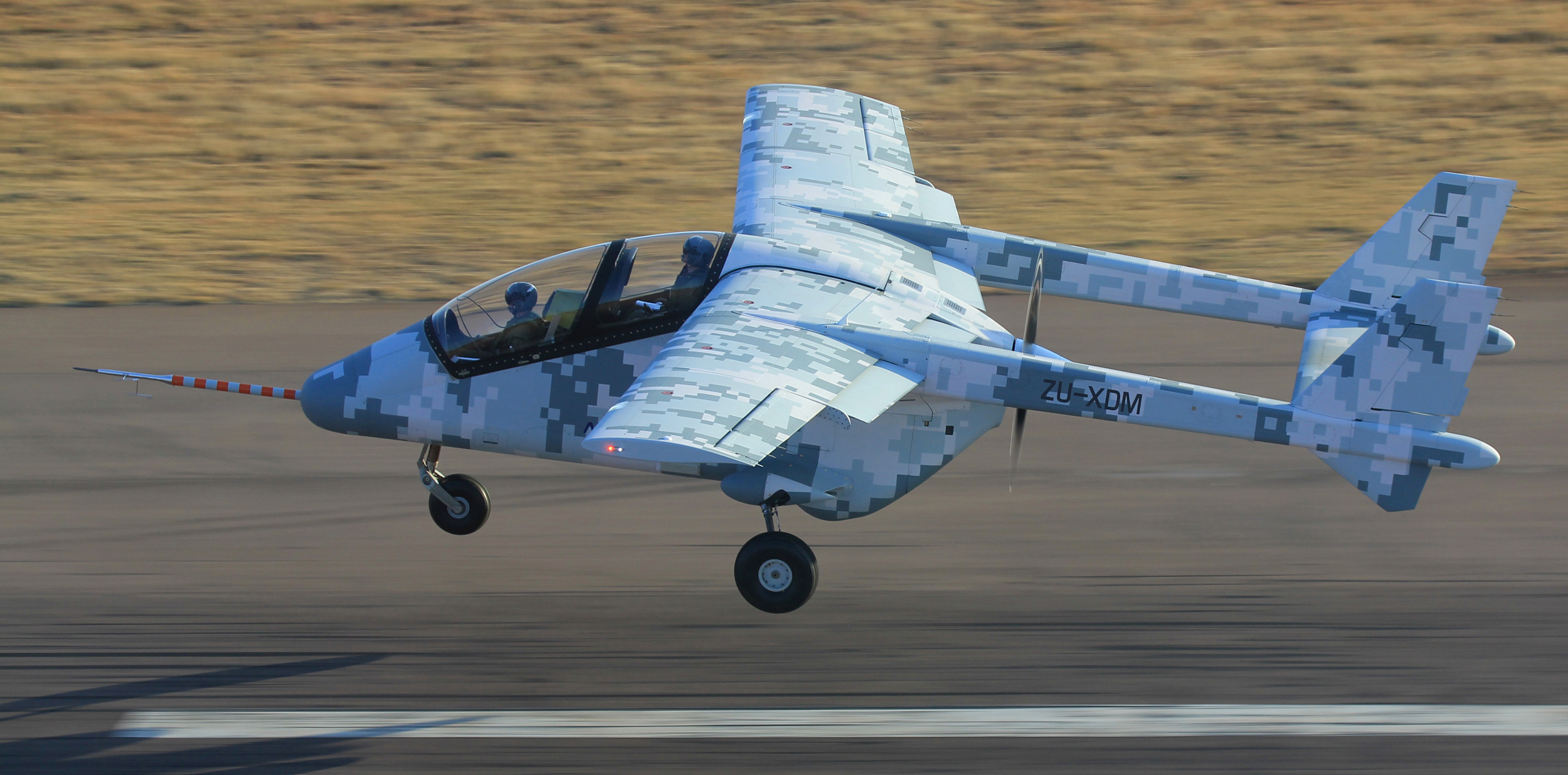 AHRLAC Holdings Ahrlac